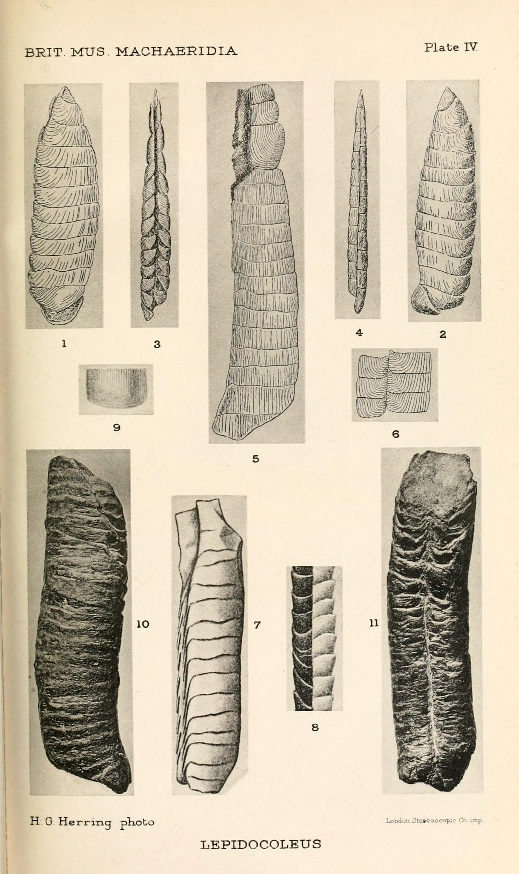 Catalogue of the Machaeridia (Turrilepas and its allies) in the Department of Geology / By Thomas Henry Withers.